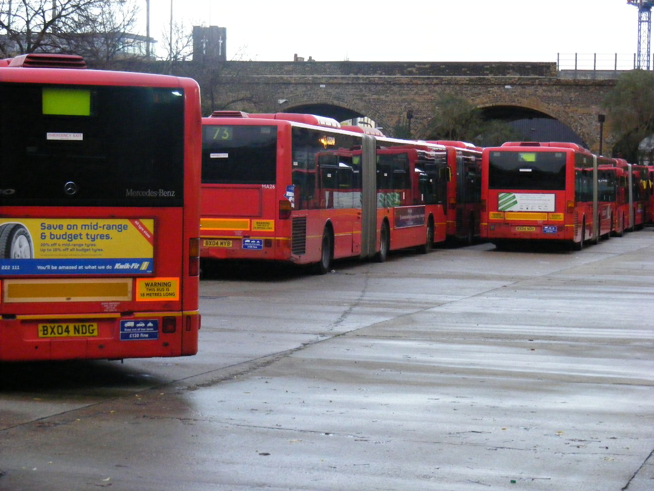 Although the 38 route's conversion to double-deckers has resulted in a surplus of Citaros, these vehicles weem to have been employed ont he 149 and 73 routes from LV garage. perhaps there has been some bumping of older bendies by the newer, white-roofed vehicles from the 38.